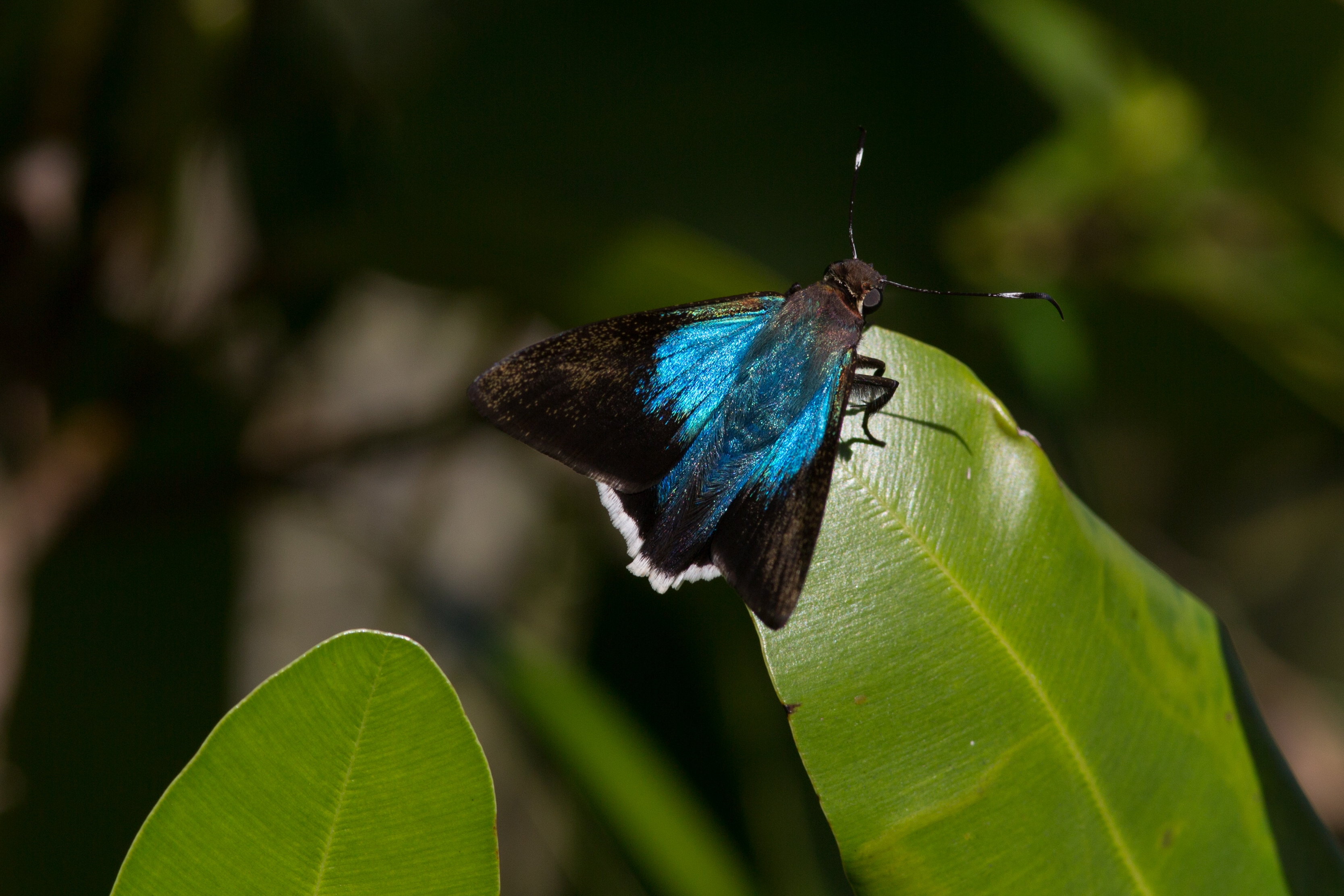 Astraptes habana (Frosty Flasher) in Puerto Boniato, Santiago de Cuba, Cuba